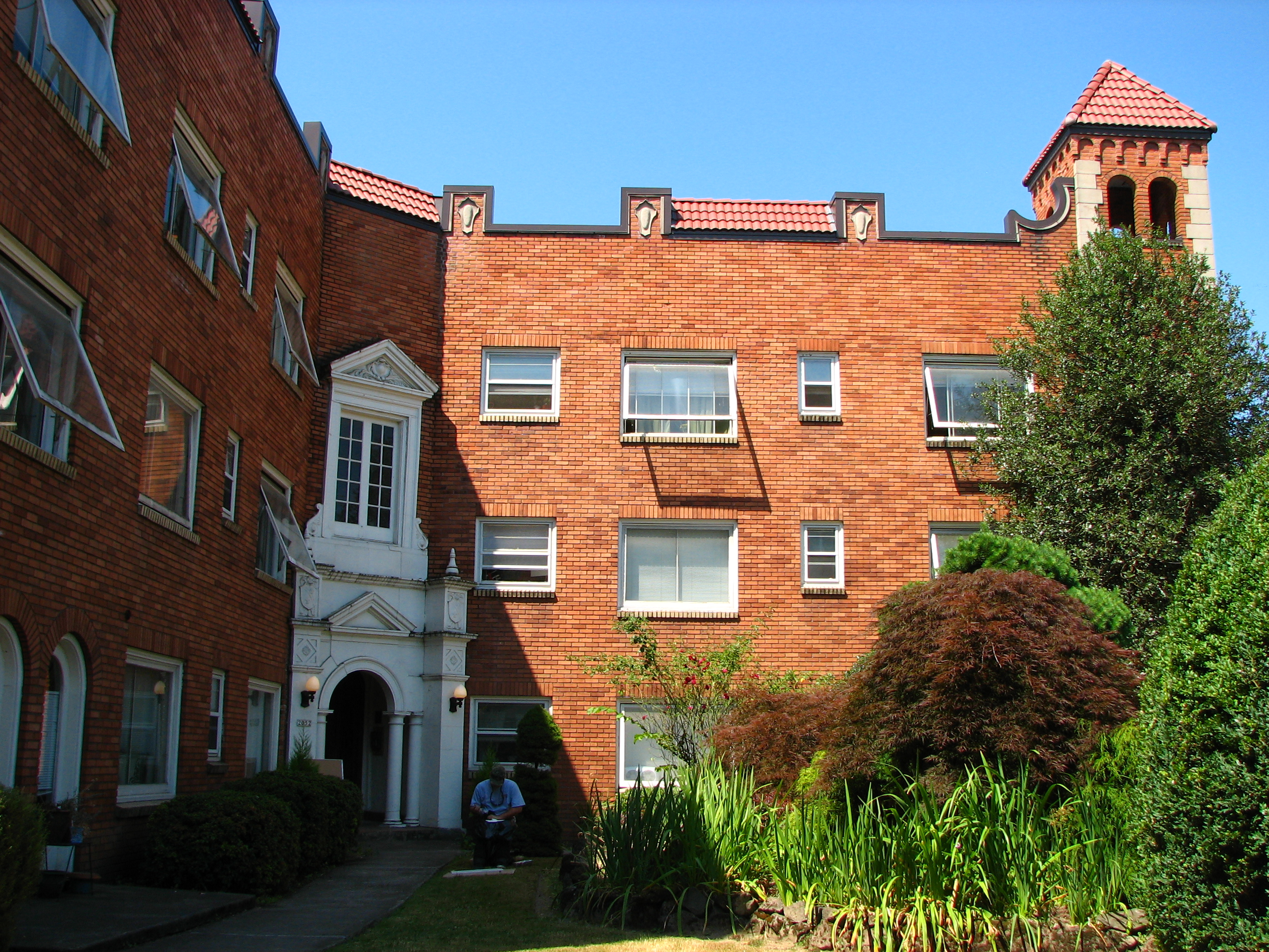 The historic Santa Barbara Apartments (built 1928), located at 2052 Southeast Hawthorne Boulevard in Portland, Oregon, United States, is listed on the US National Register of Historic Places.